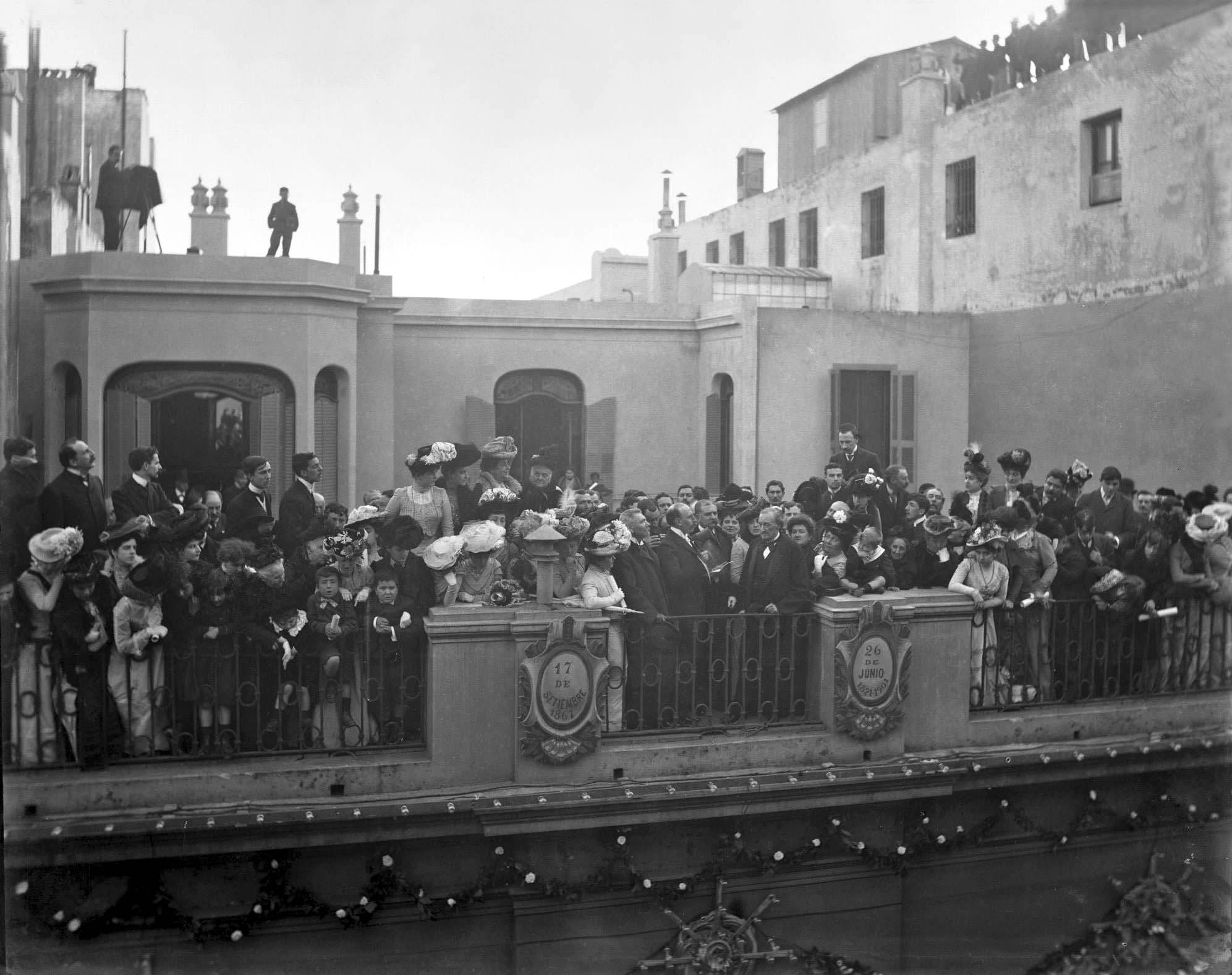 Former president of Argentina, Bartolomé Mitre, on the terrace of his house while celebrating his 80th. birthday.